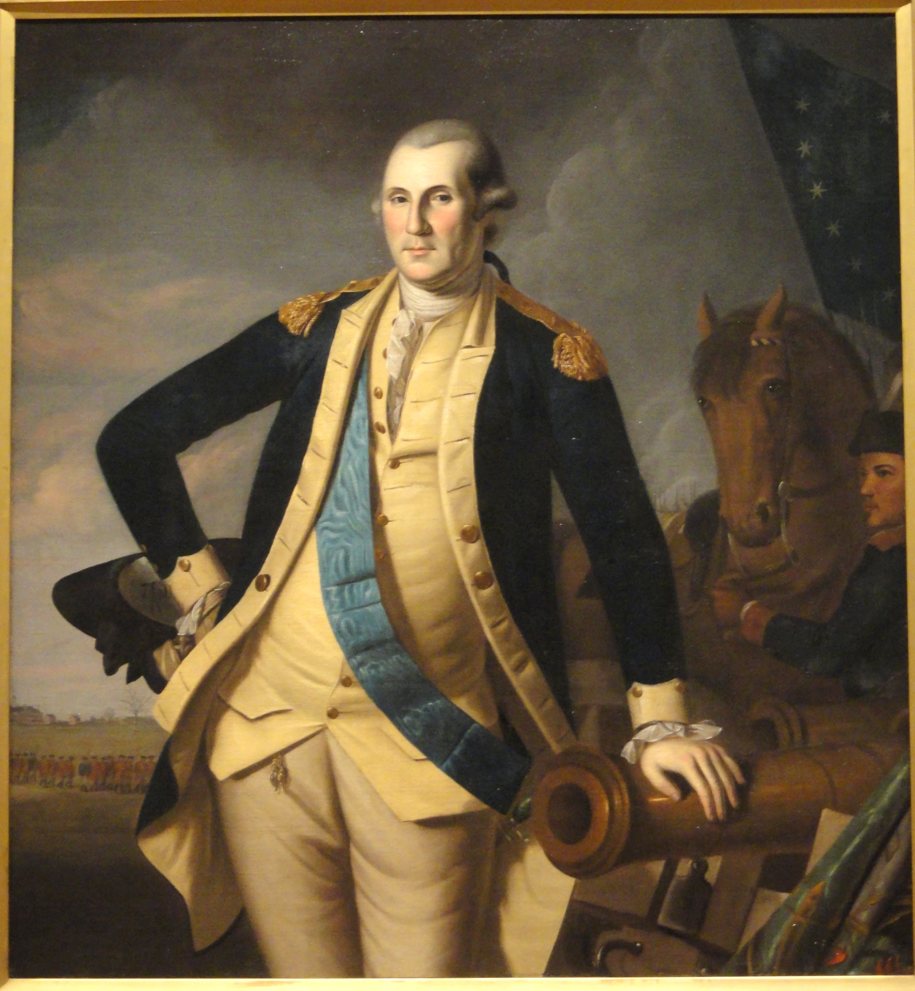 George Washington at the Battle of Princetonlabel QS:Len,"George Washington at the Battle of Princeton"